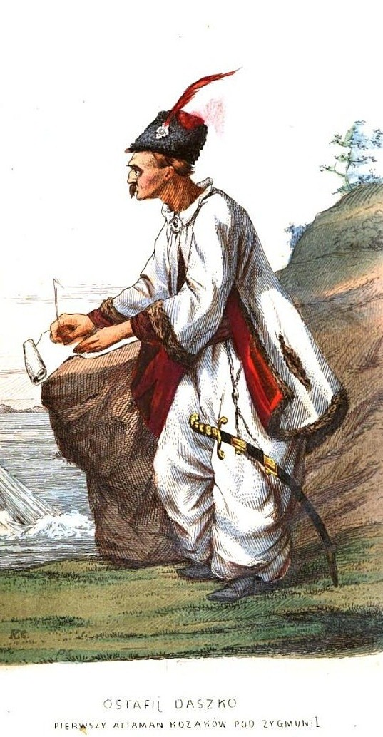 Ostap (Dashko)